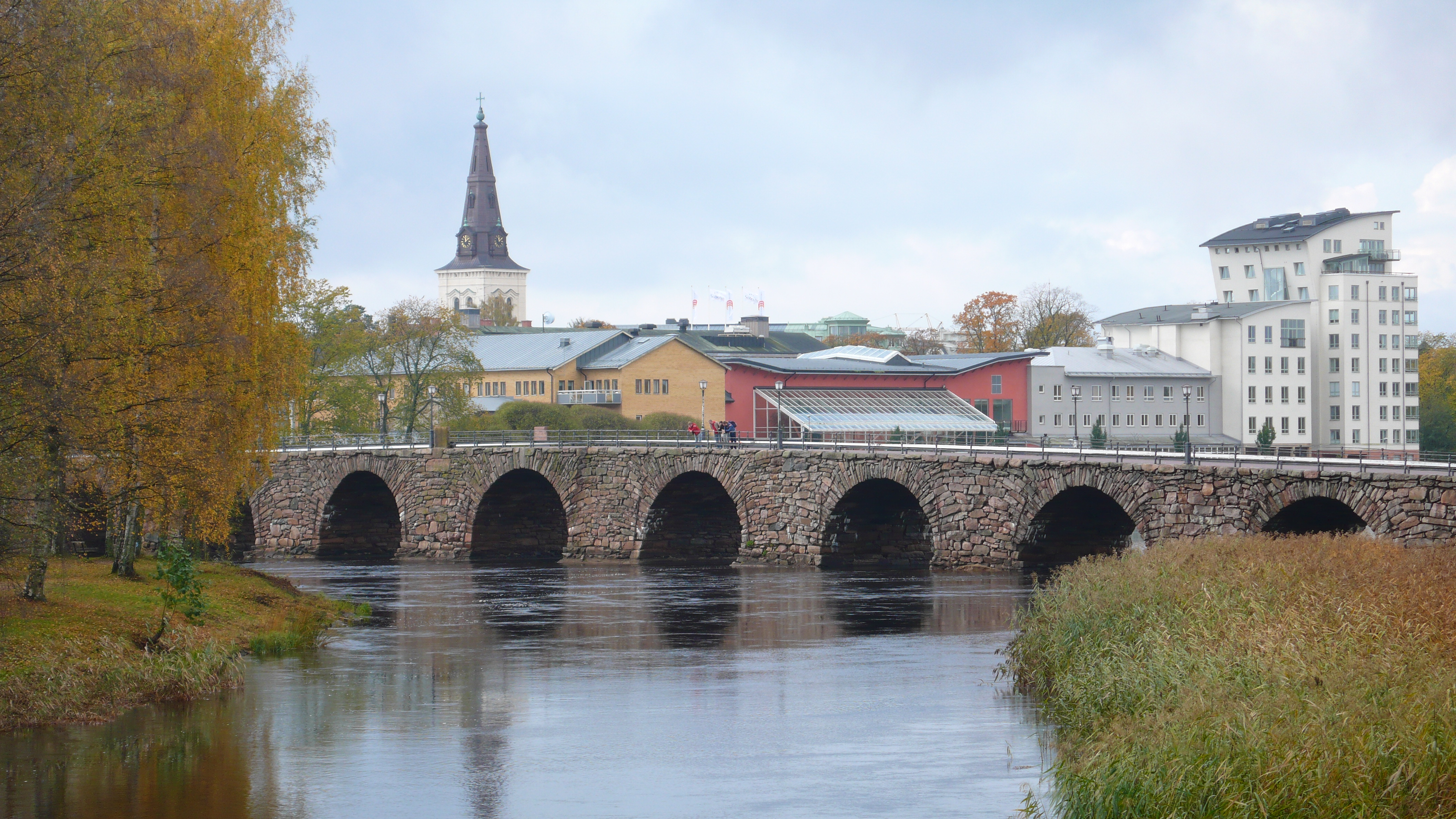 East bridge in Karlstad, Sweden.